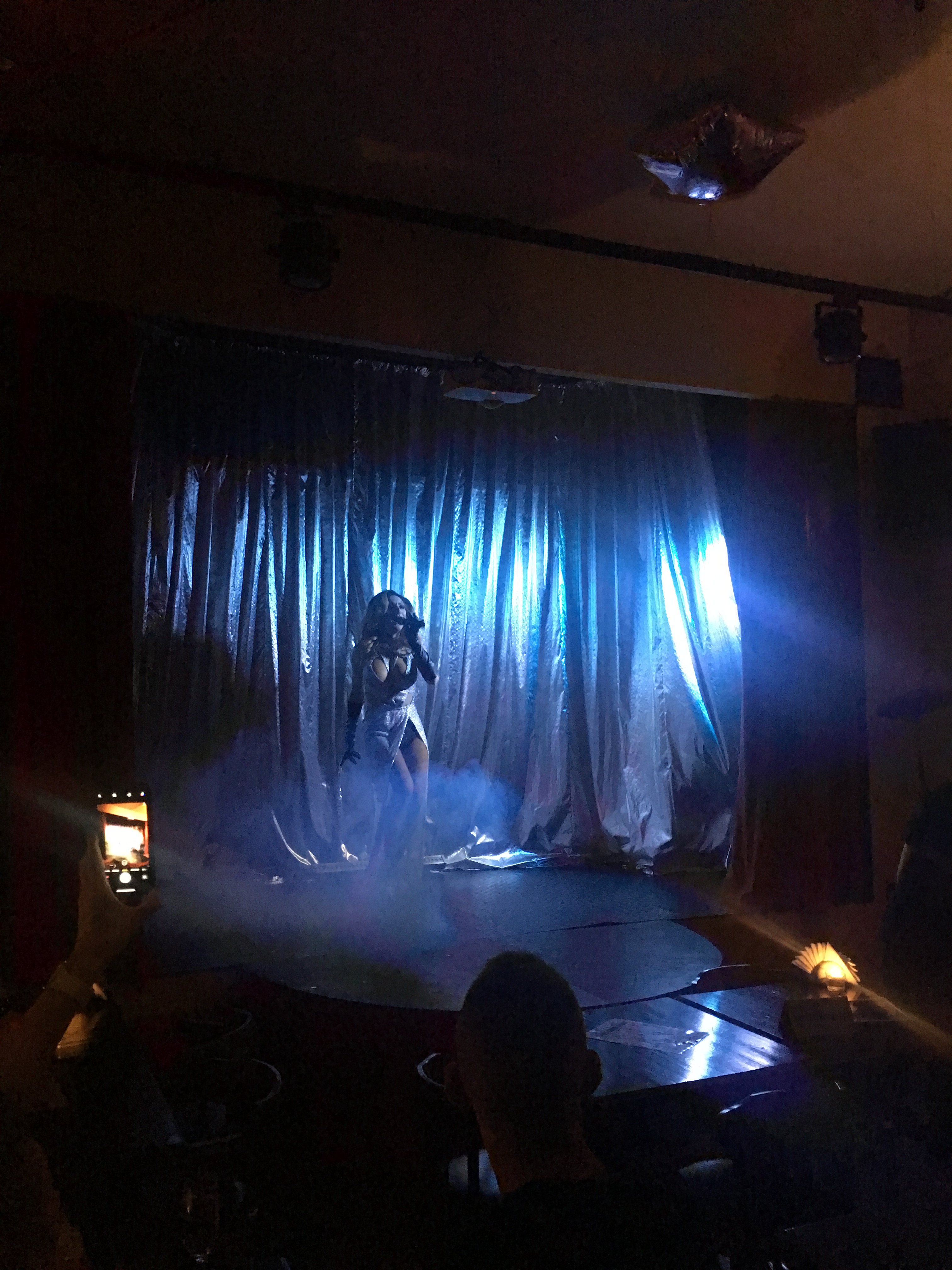 A show in Central Station